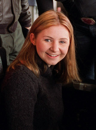 Beverley Mitchell, Seventh Heaven star, poses for a picture in an F-15E model aircraft. Mitchell, along with Nicholas Brendon of Buffy the Vampire Slayer, came to the 48th Fighter Wing in support of US Air Forces in Europe Services Extreme Summer 2001 Program put together for USAFE teenagers.